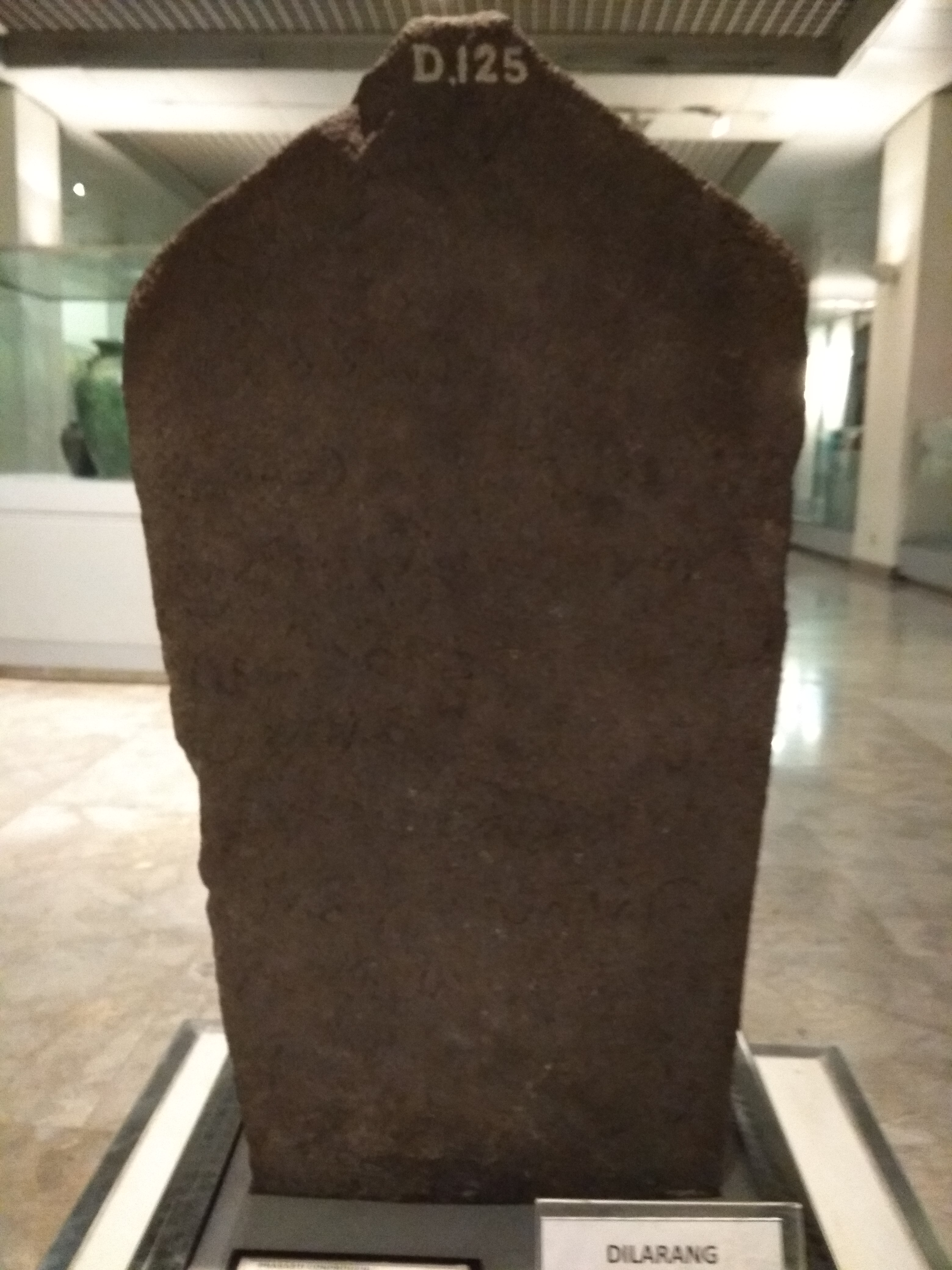 Condrogeni I inscription, found in the Condrogeni coffee plantation, Pudak, Ponorogo, East Java, Indonesia. Dated 1427 Çaka / 1505 A.D. Collection of the National Museum of Indonesia, Inventory no. D. 125.